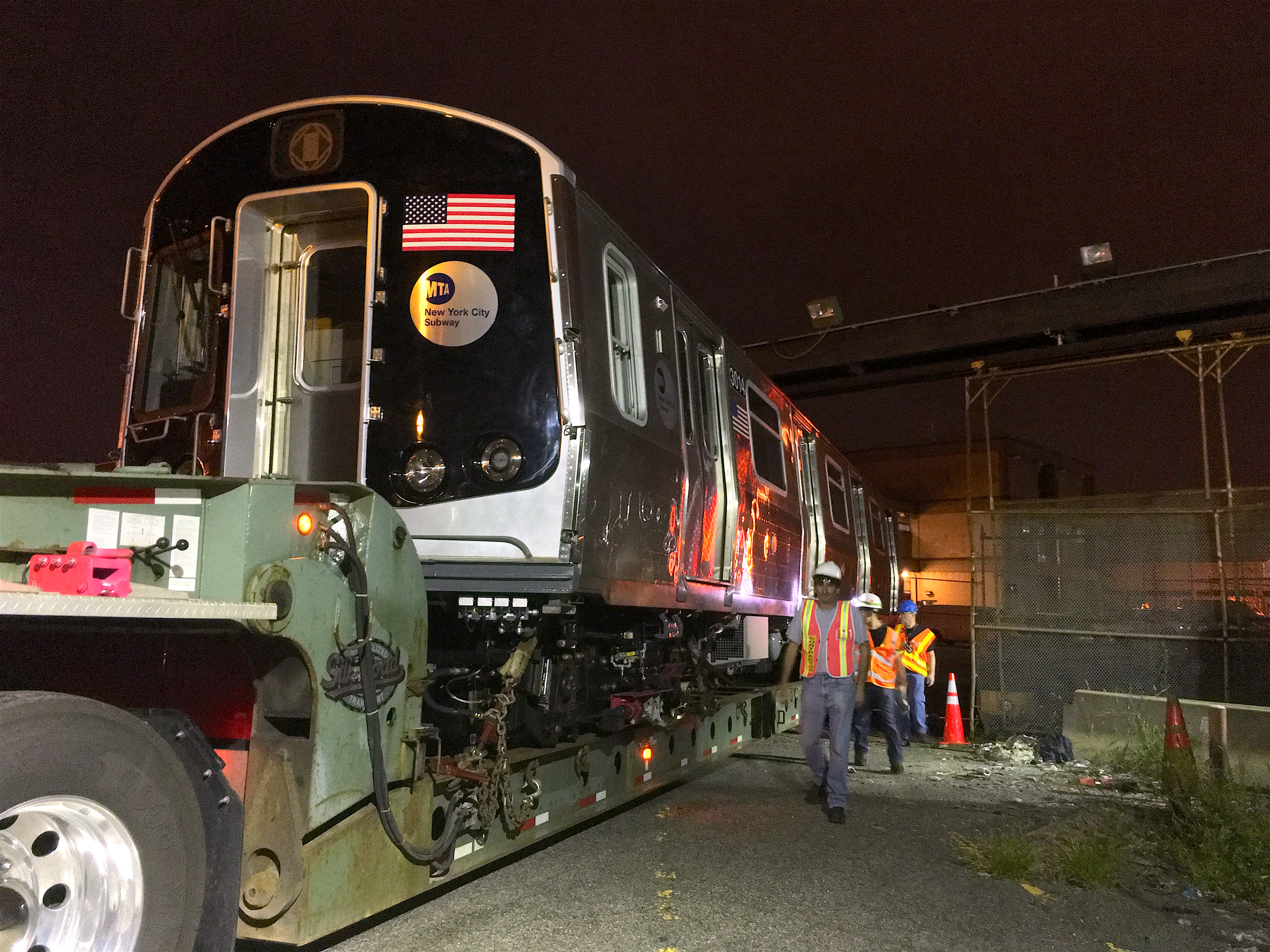 This image depicts the first R179 to be delivered to the MTA